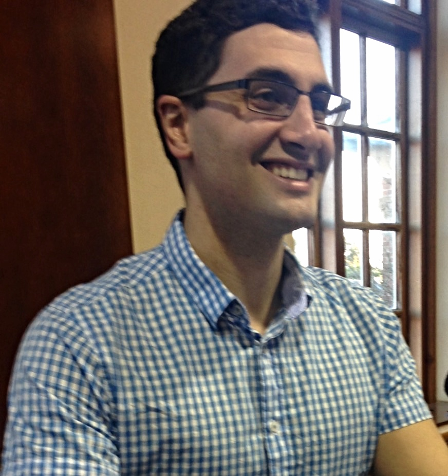 Will Kostakis presenting at the Australian School Library Association Conference, Sydney July 2017